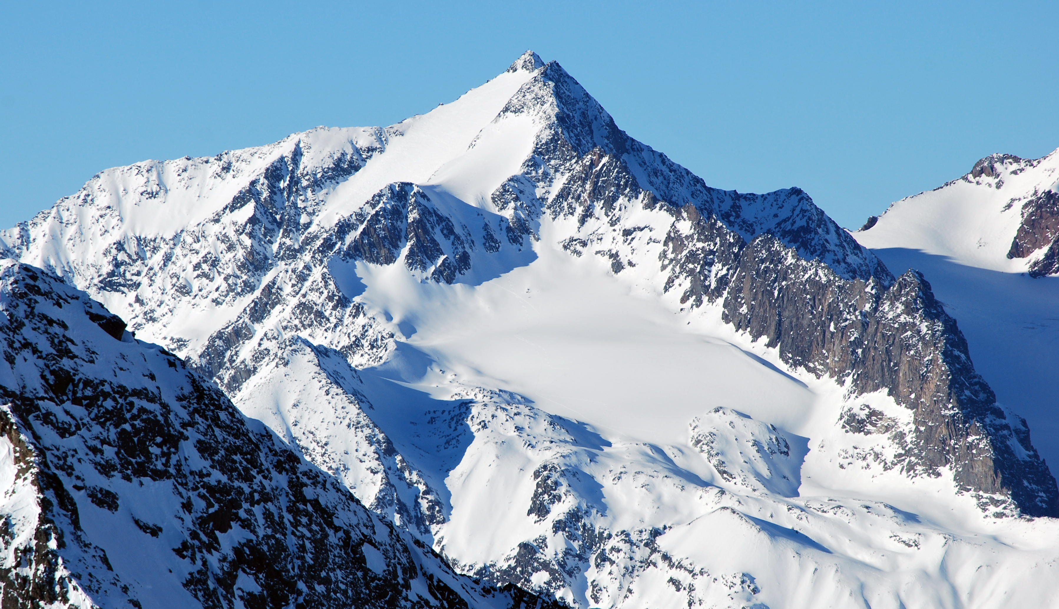 Ruderhofspitze (2473m) seen from Southeast (Schafkampspitze)